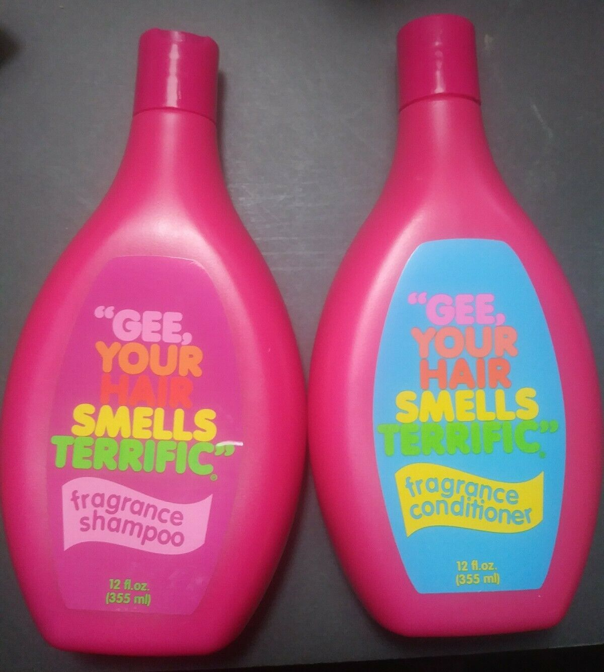 "Gee, Your Hair Smells Terrific" brand Fragrance Shampoo and Fragrance Conditioner in 12 oz bottles